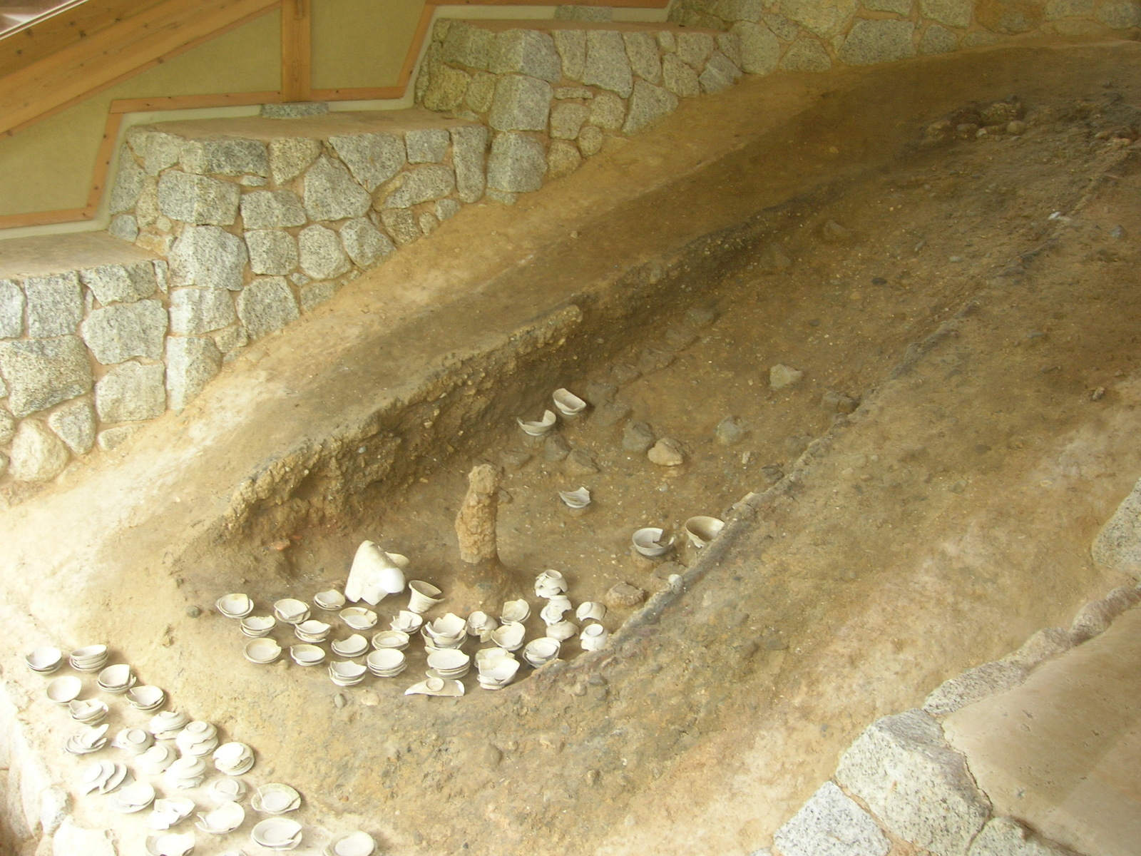 Hirokute 30go kamaato (Ruin of Hirokute No.30 old kiln.). Loc: Kaisho forest, Seto city, Aichi Prefecture, Japan. 広久手30号窯跡・窯体 撮影場所 愛知県瀬戸市・海上の森